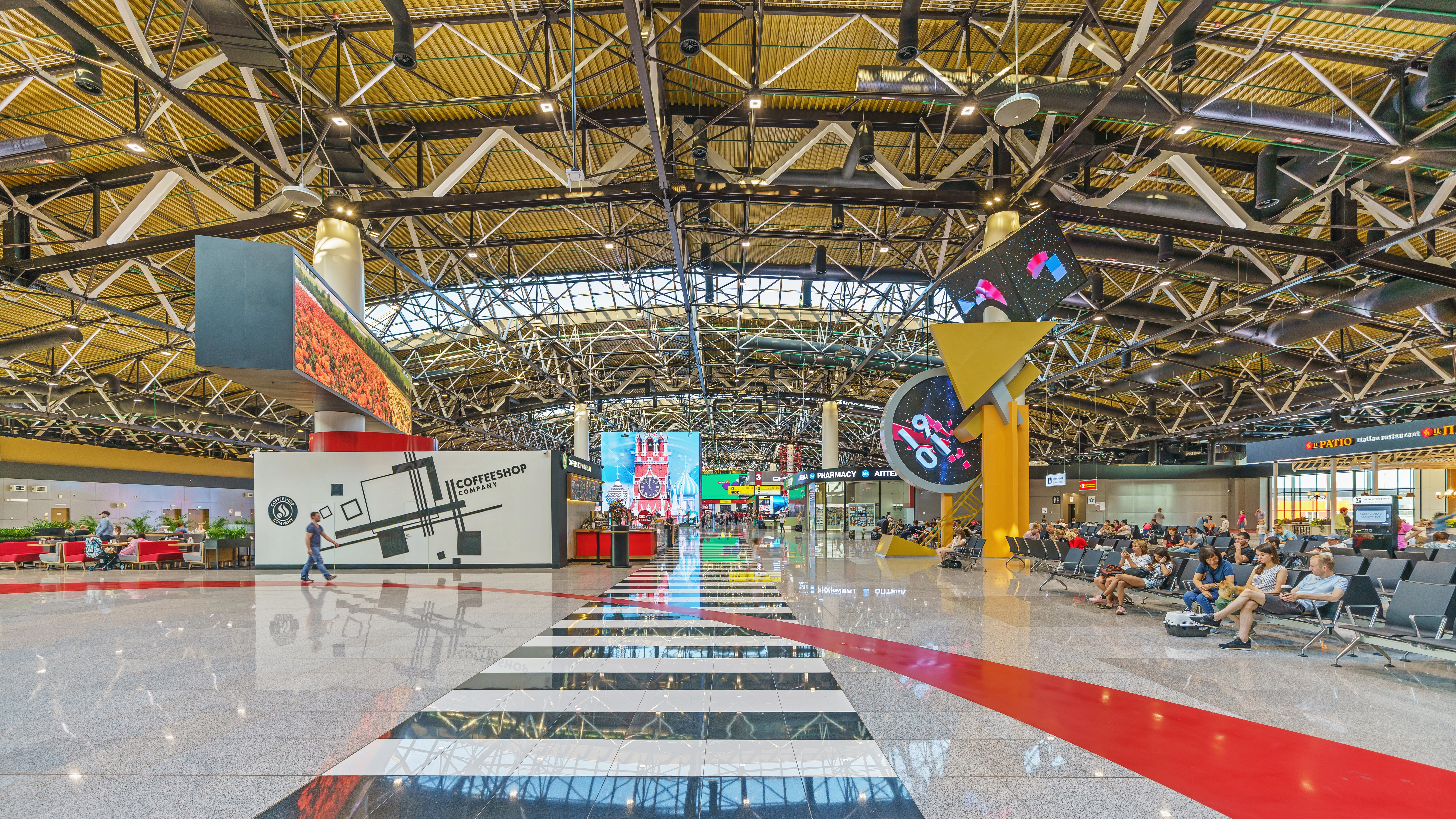 Interior of new Terminal B of Sheremetyevo Int. Airport, Moscow Oblast, Russia.